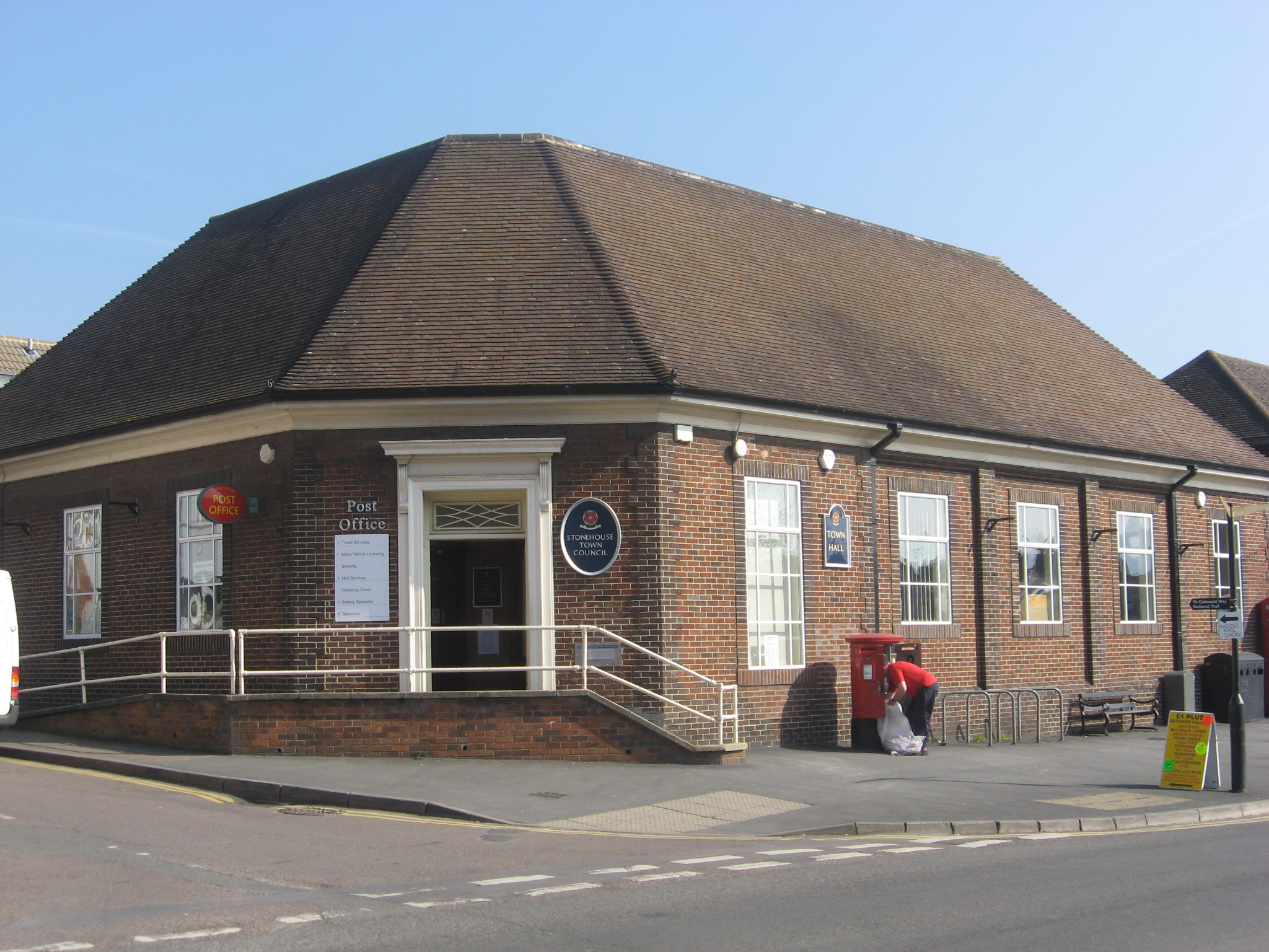 Town Hall and Post Office, Stonehouse, Gloucestershire